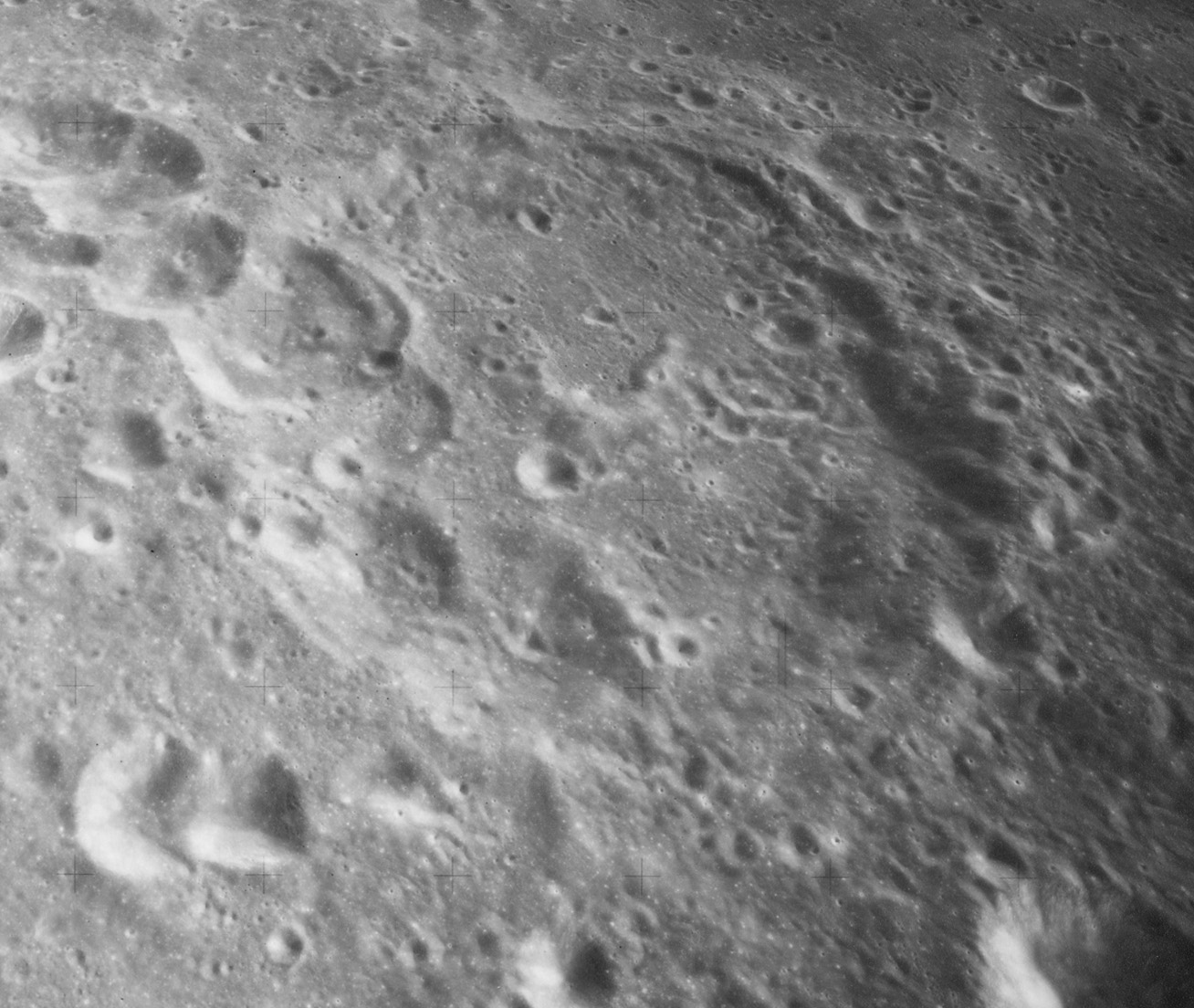 Lamé, on the moon.